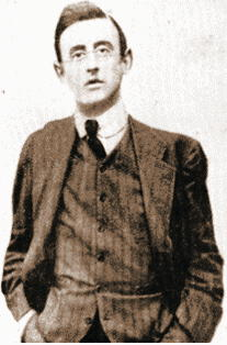 Joseph Mary Plunkett (Irish Poet and Republican Revolutionary) in approx. 1910.